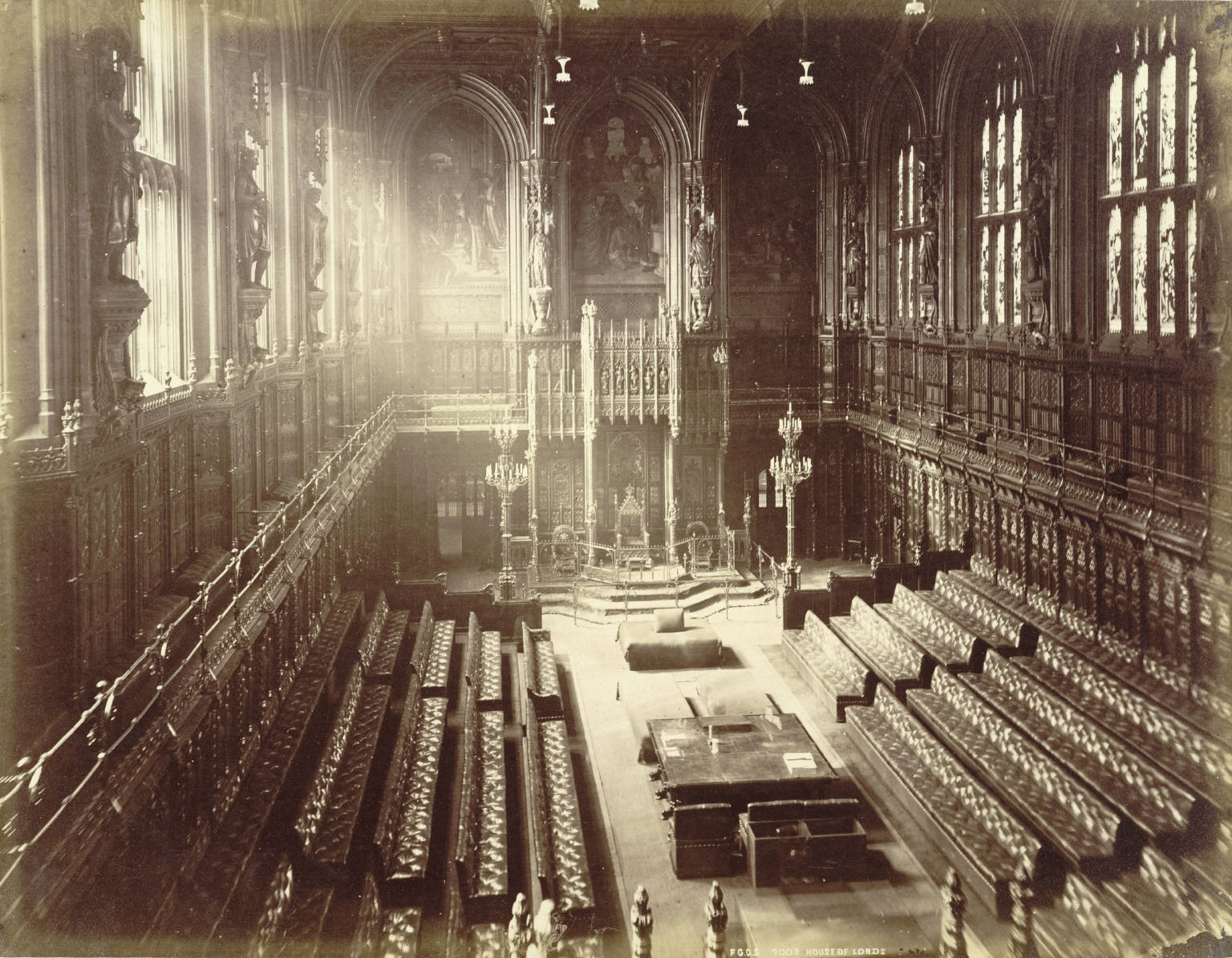 Collection: A. D. White Architectural Photographs, Cornell University Library Accession Number: 15/5/3090.00959 Title: House of Lords Photographer: Francis Godolphin Osbourne Stuart (English, active ca. 1860-ca. 1889) Architect: Barry & Pugin Building Date: 1840-1888 Photograph date: ca. 1870-ca. 1885 Location: Europe: United Kingdom; London Materials: albumen print Image: 8 1/2 x 11 1/8 in.; 21.59 x 28.2575 cm Style: Gothic Revival Provenance: Transfer from the College of Architecture, Art and Planning Persistent URI: There are no known copyright restrictions on this image. The digital file is owned by the Cornell University Library which is making it freely available with the request that, when possible, the Library be credited as its source. We had some help with the geocoding from Web Services by Yahoo! This image is from the Cornell University Library's The Commons Flickr stream. The Library has determined that there are no known copyright restrictions. This image was taken from Flickr's The Commons. The uploading organization may have various reasons for determining that no known copyright restrictions exist, such as: The copyright is in the public domain because it has expired; The copyright was injected into the public domain for other reasons, such as failure to adhere to required formalities or conditions; The institution owns the copyright but is not interested in exercising control; or The institution has legal rights sufficient to authorize others to use the work without restrictions. More information can be found at Please add additional copyright tags to this image if more specific information about copyright status can be determined. See Commons:Licensing for more information. No known copyright restrictionsNo restrictions